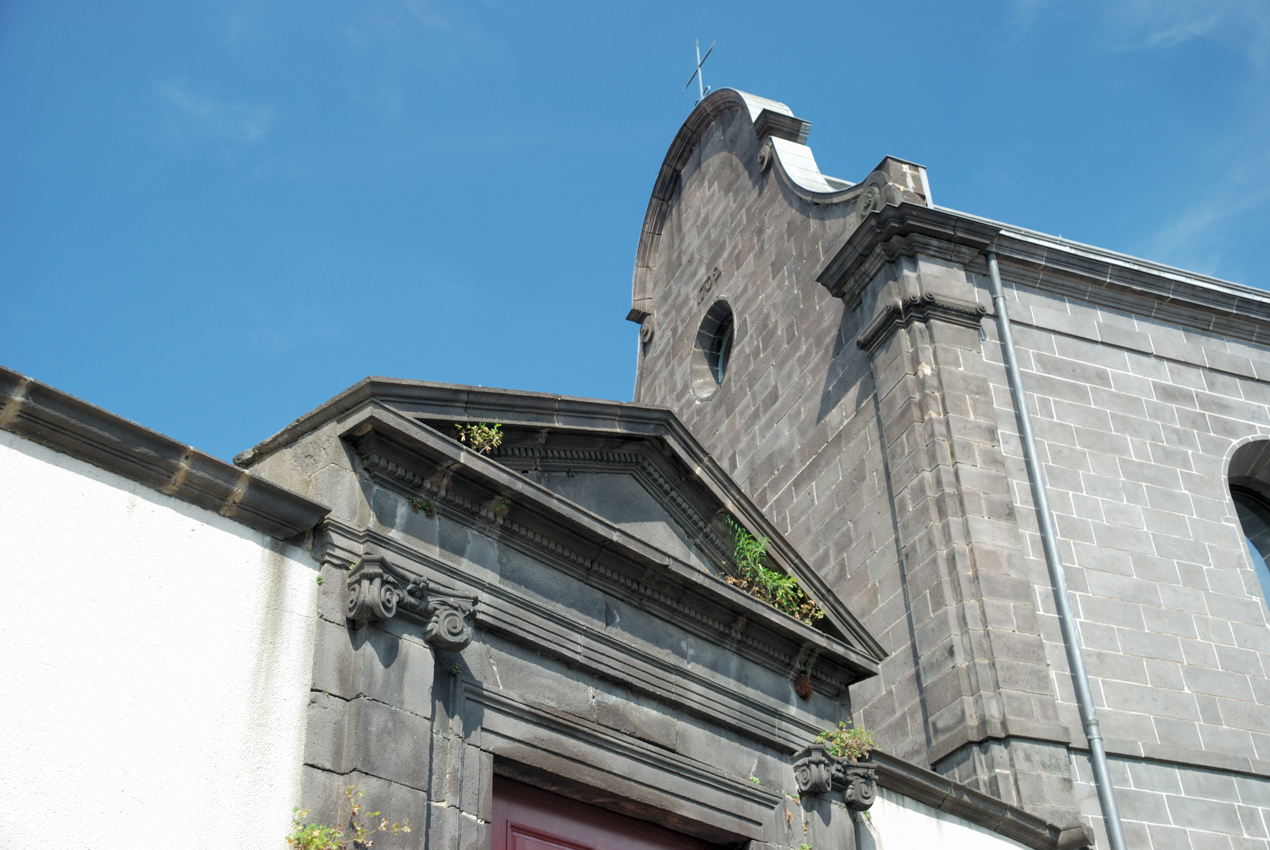 Montferrand area (Clermont-Ferrand, Puy-de-Dôme, France): tympanum of the door of the "cour des aides" (court of aides.